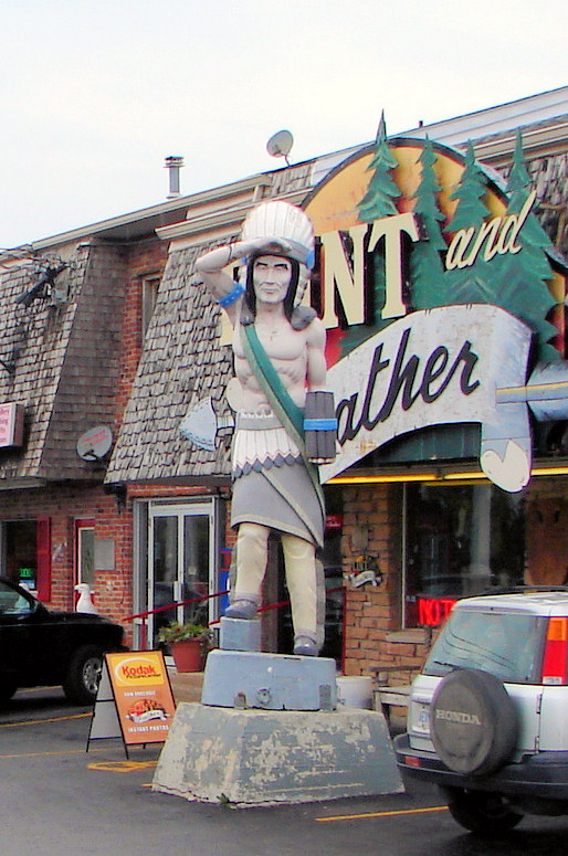 Novelty statue along Highway 49 in Tyendinaga First Nation reserve, Ontario, Canada